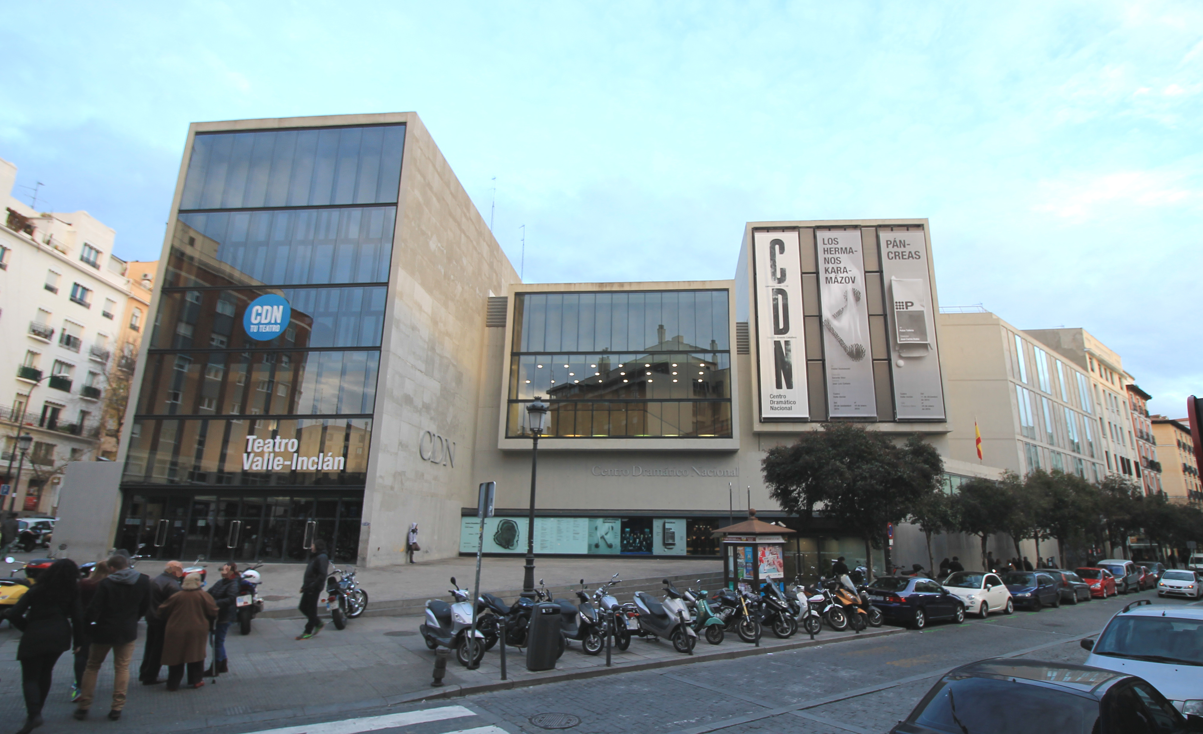 Façade of Teatro Valle-Inclán (a theater) in Madrid (Spain).